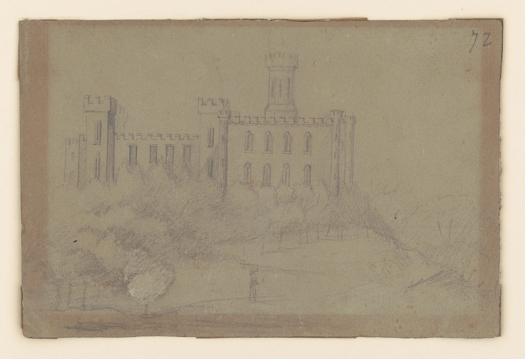 Title: Florence Alabama female college, June 1862 Abstract/medium: 1 drawing : graphite ; sheet 10 x 15 cm.